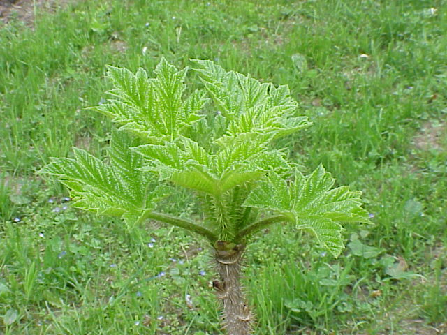 Name Oplopanax horridus Family Image no. 1